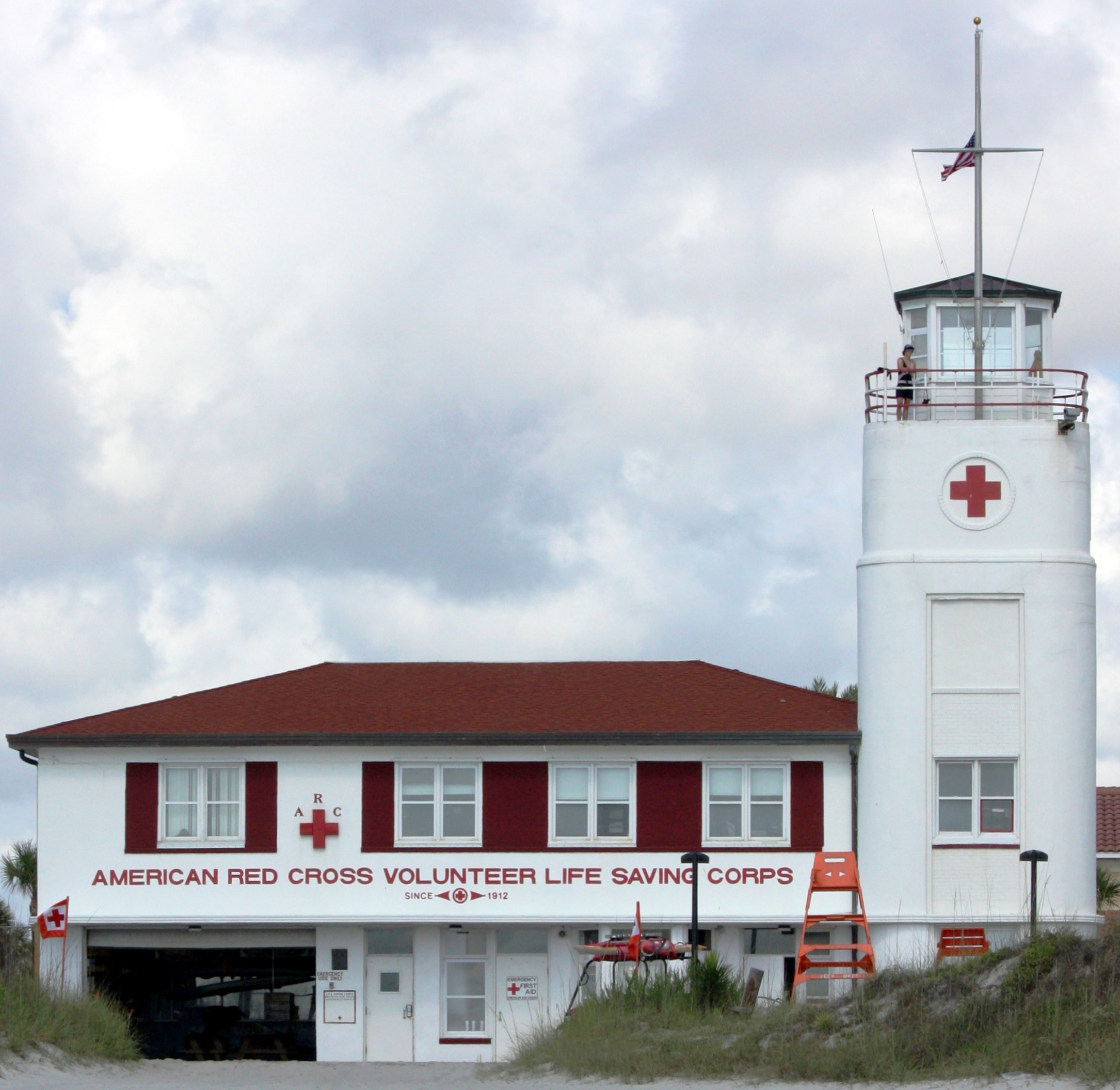 ARCVLSC Station